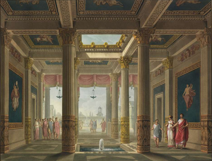 Alessandro Sanquirico's set design from the 1827 La Scala Production of Giovanni Pacini's opera, L'ultimo giorno di Pompei. Hand-colored aquatint. Raccolta di varie decorazioni sceniche inventate ed eseguite per il R. Teatro alla Scala di Milano (Collection of Various Scenic Decorations Designed and Executed for the Royal Theater at La Scala, Milan), about 1827–32, Carlo Sanquirico (Italian, active 1820s–1830s) after Alessandro Sanquirico (Italian, 1777–1849).